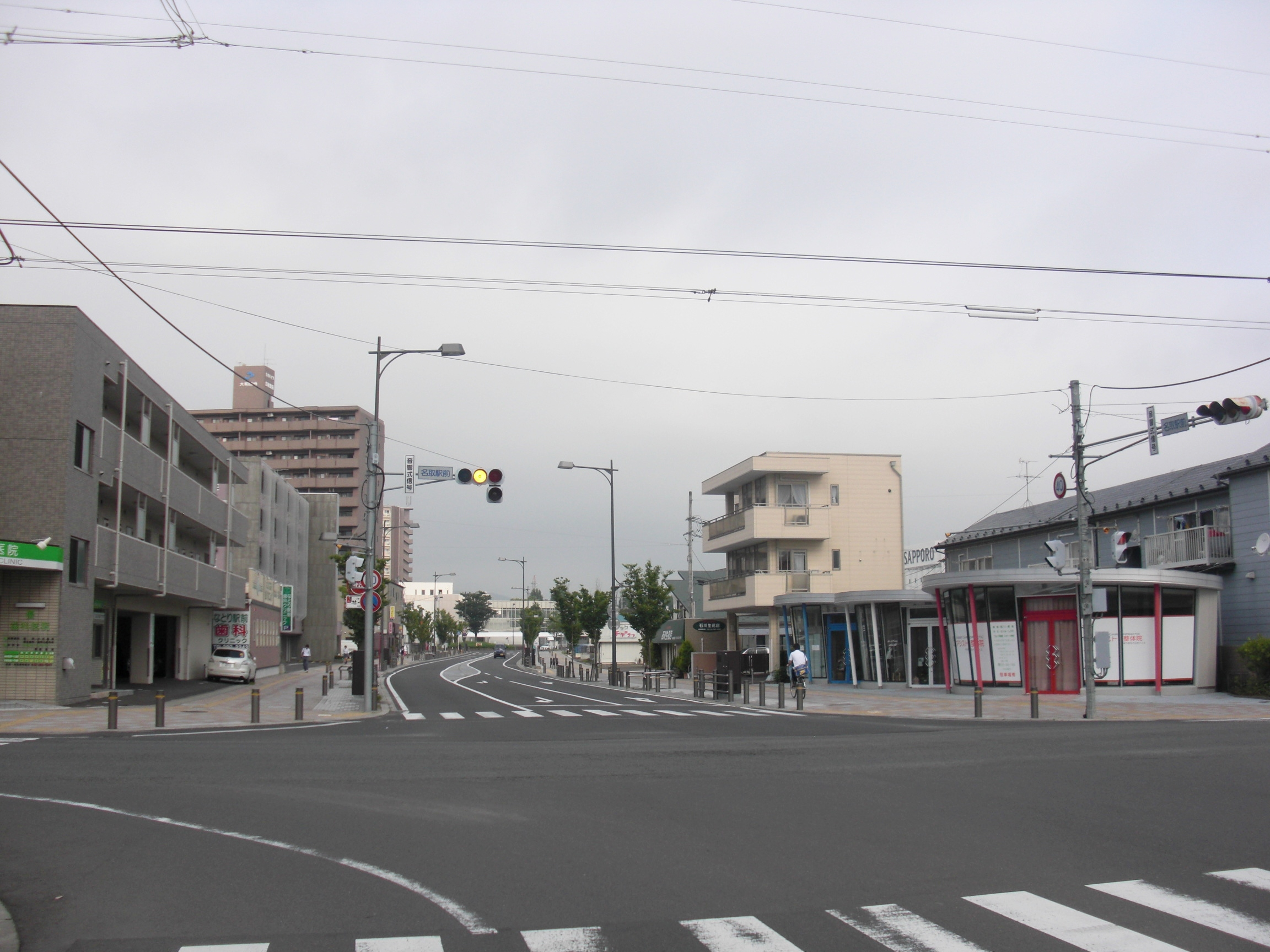 This is the panorama of Miyagi prefectural route 128 Natori Station Line.